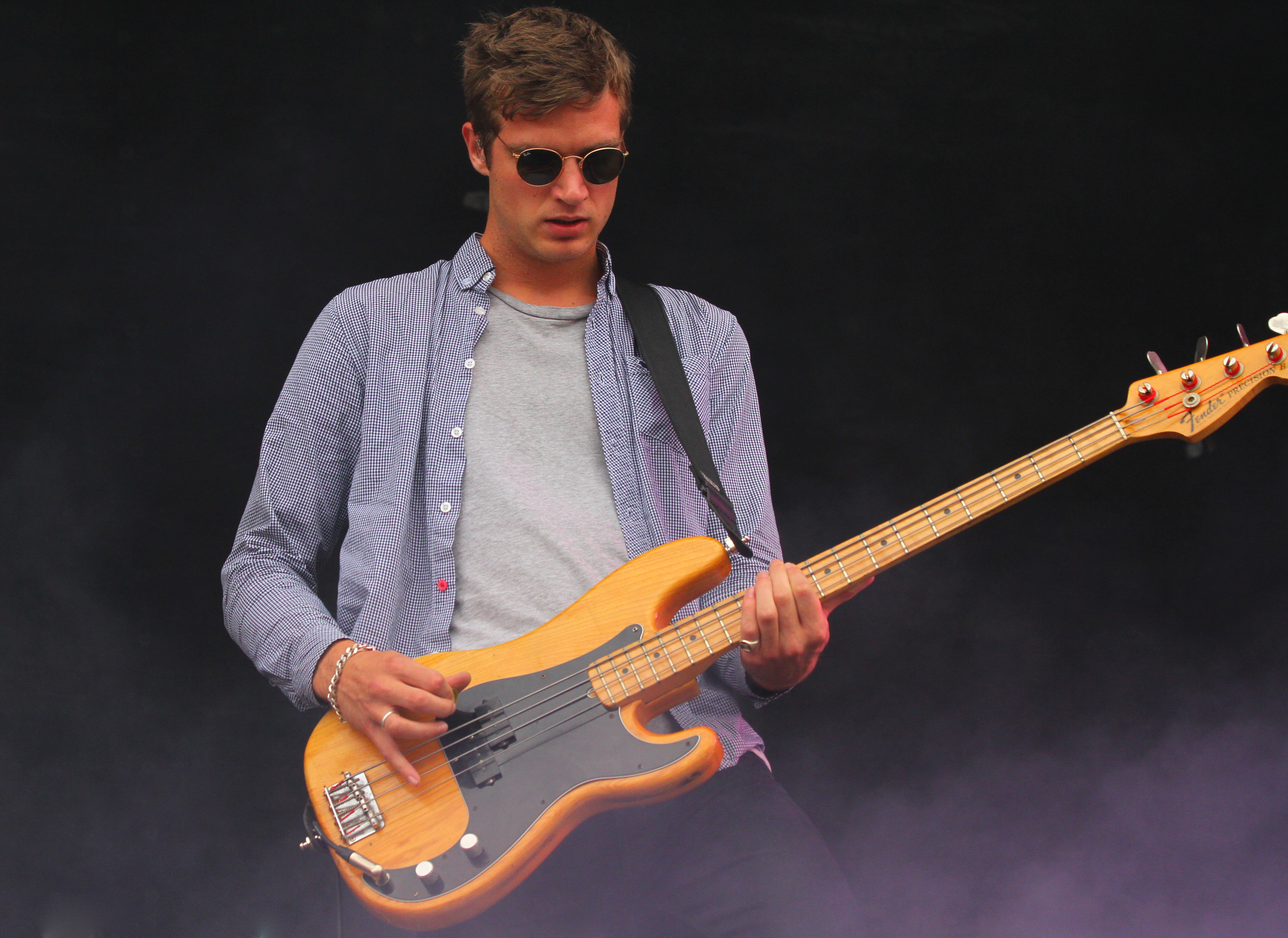 Posted via email from Globalite Magazine